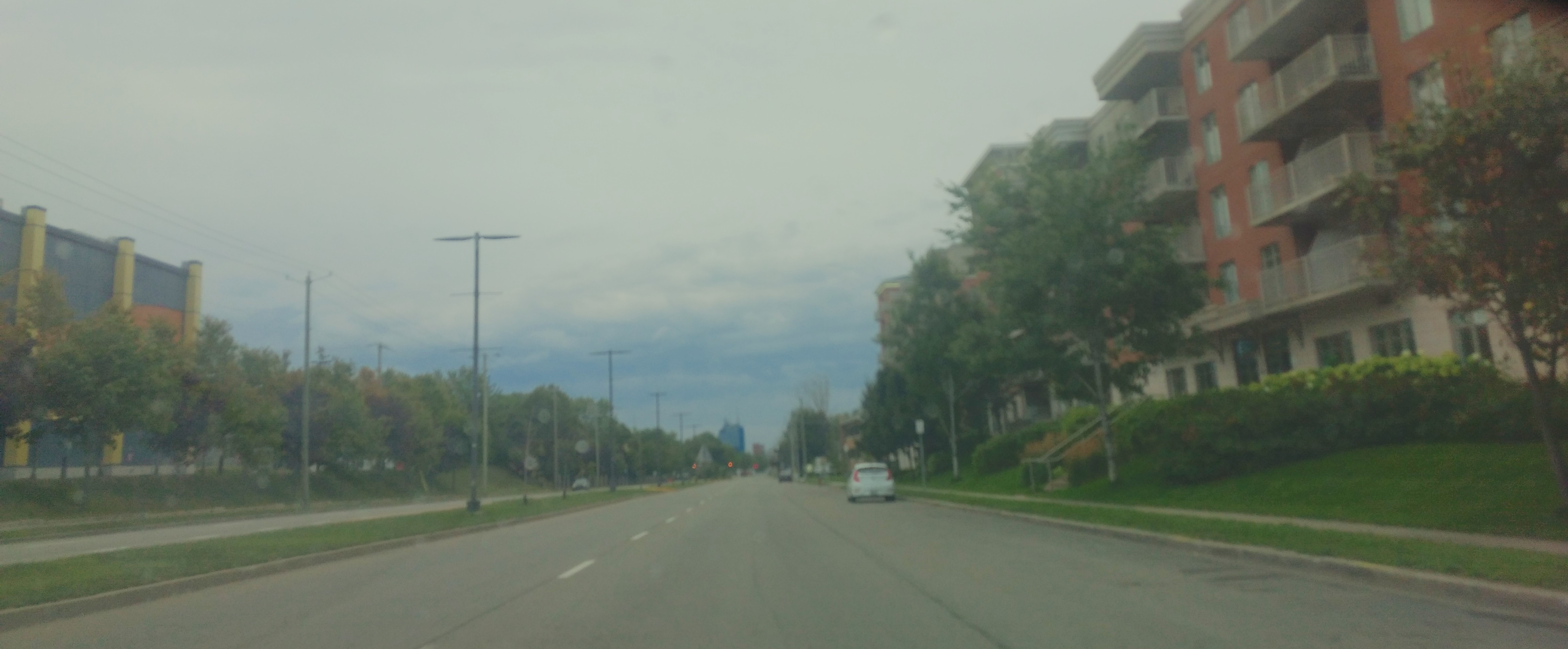 Boulevard des Forges, Trois-Rivières, QC, Canada.